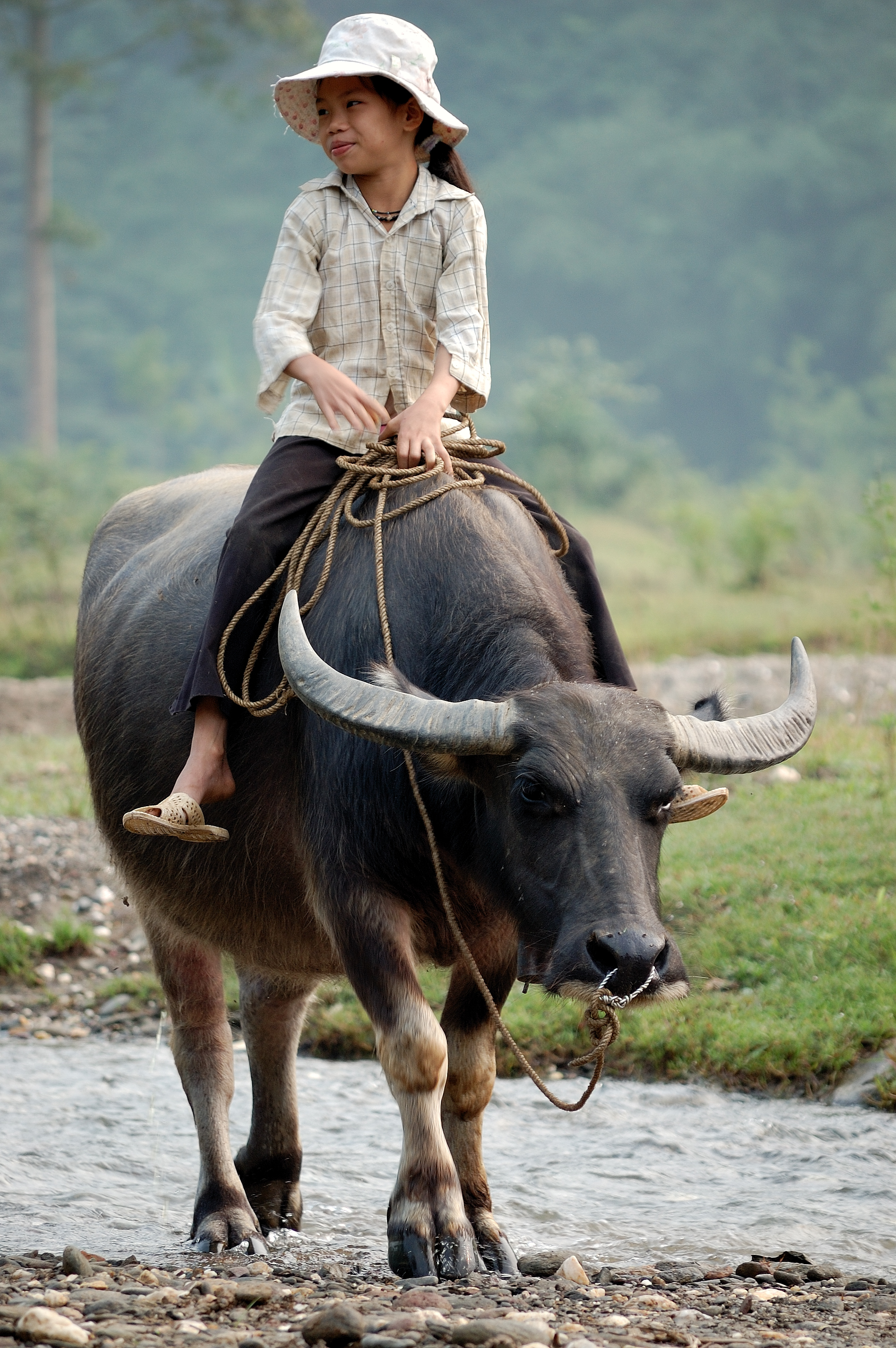 A Vietnamese girl riding a water buffalo.